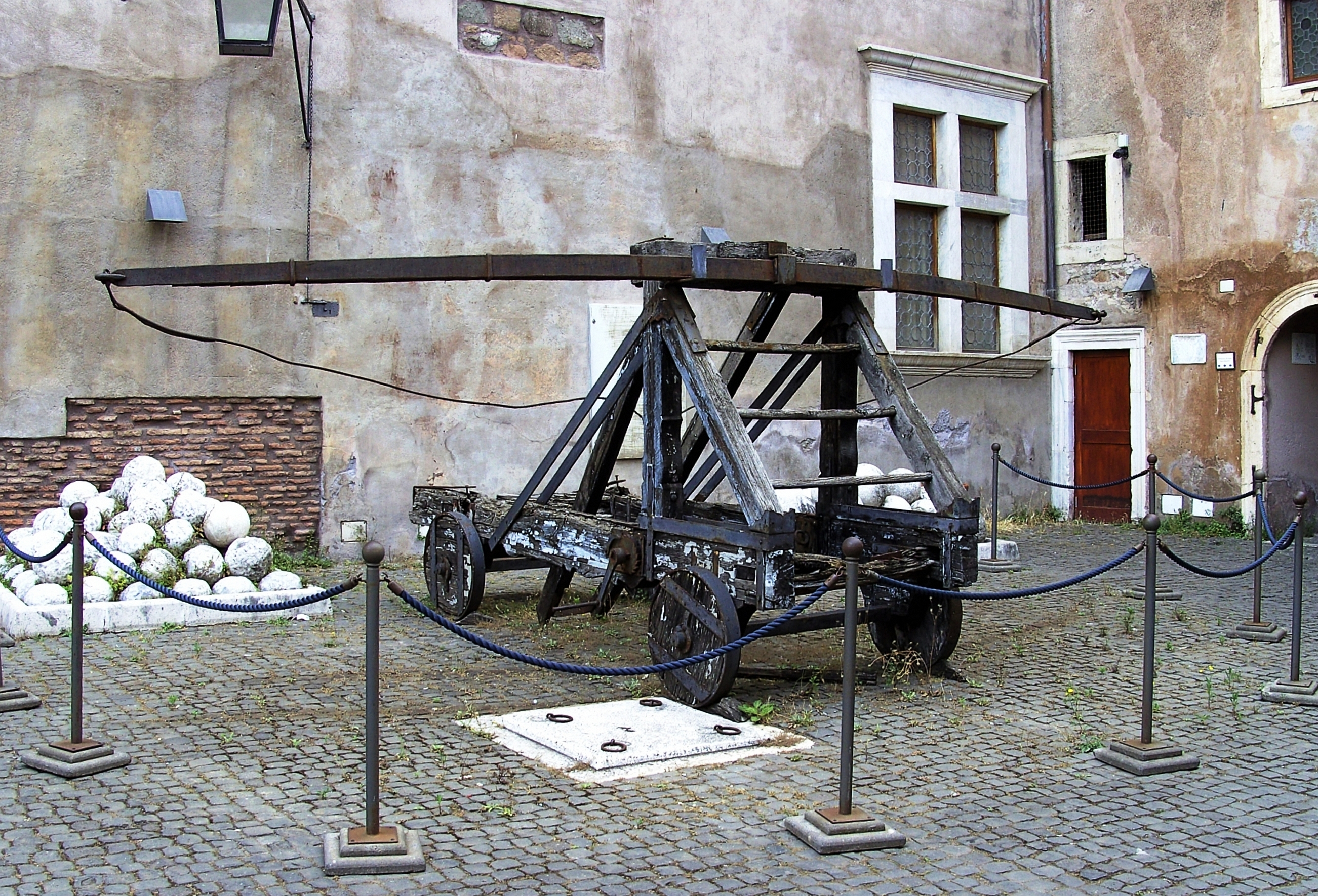 A Ballista, displayed in Castle of the Holy Angel in Rome, Italy